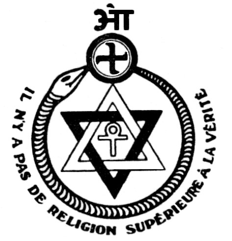 French theosophy logo digitalized : The Star of David, Ouroboros, positive swastika, ankh and aum. It reads : "There is no religion higher than truth"